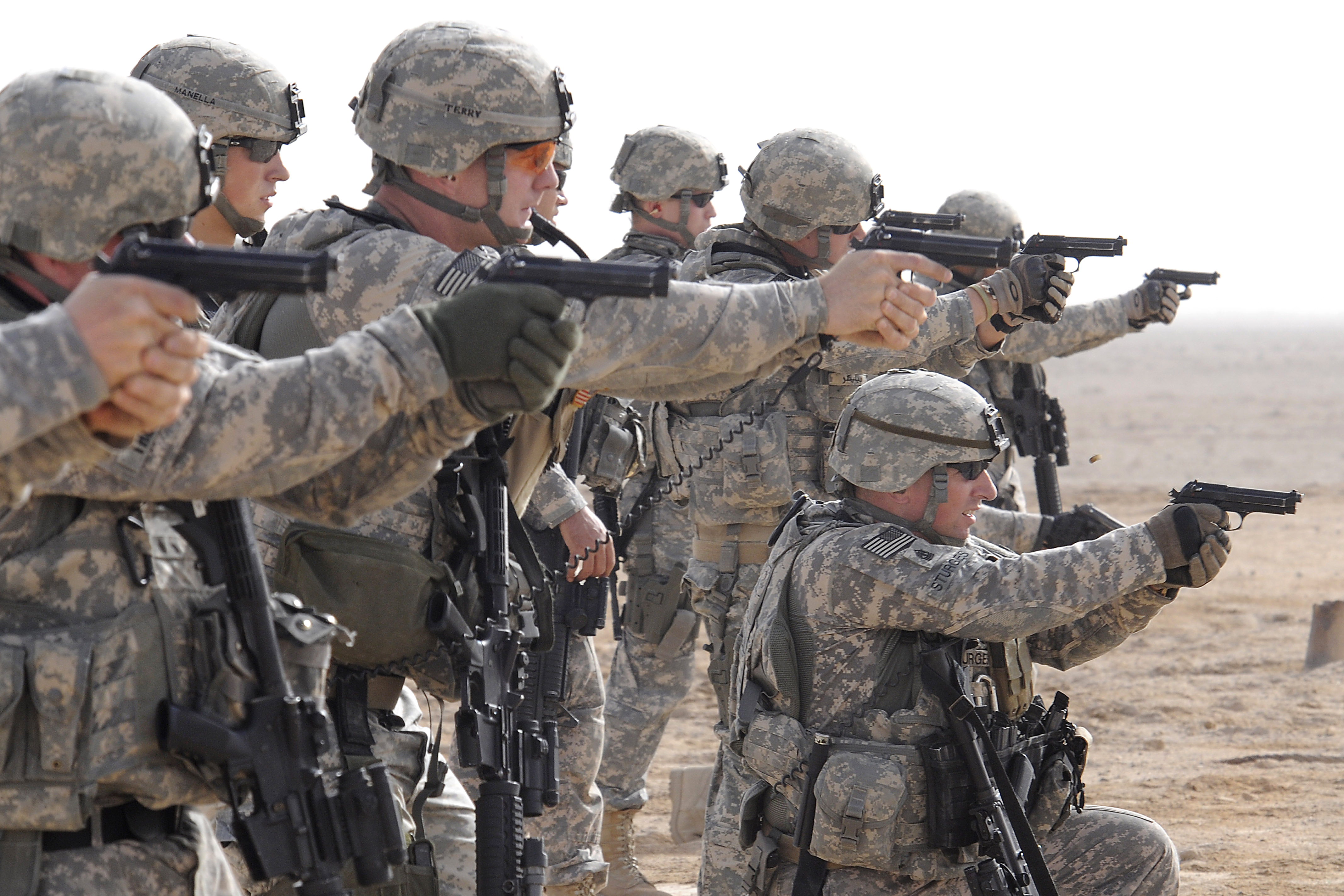 U.S. Army soldiers participate in tactical range training using M-9 Berretta handguns on Normandy Range Complex in Basra, Iraq, July 15, 2009. The soldiers are assigned to Company B, 445th Civil Affairs Battalion.